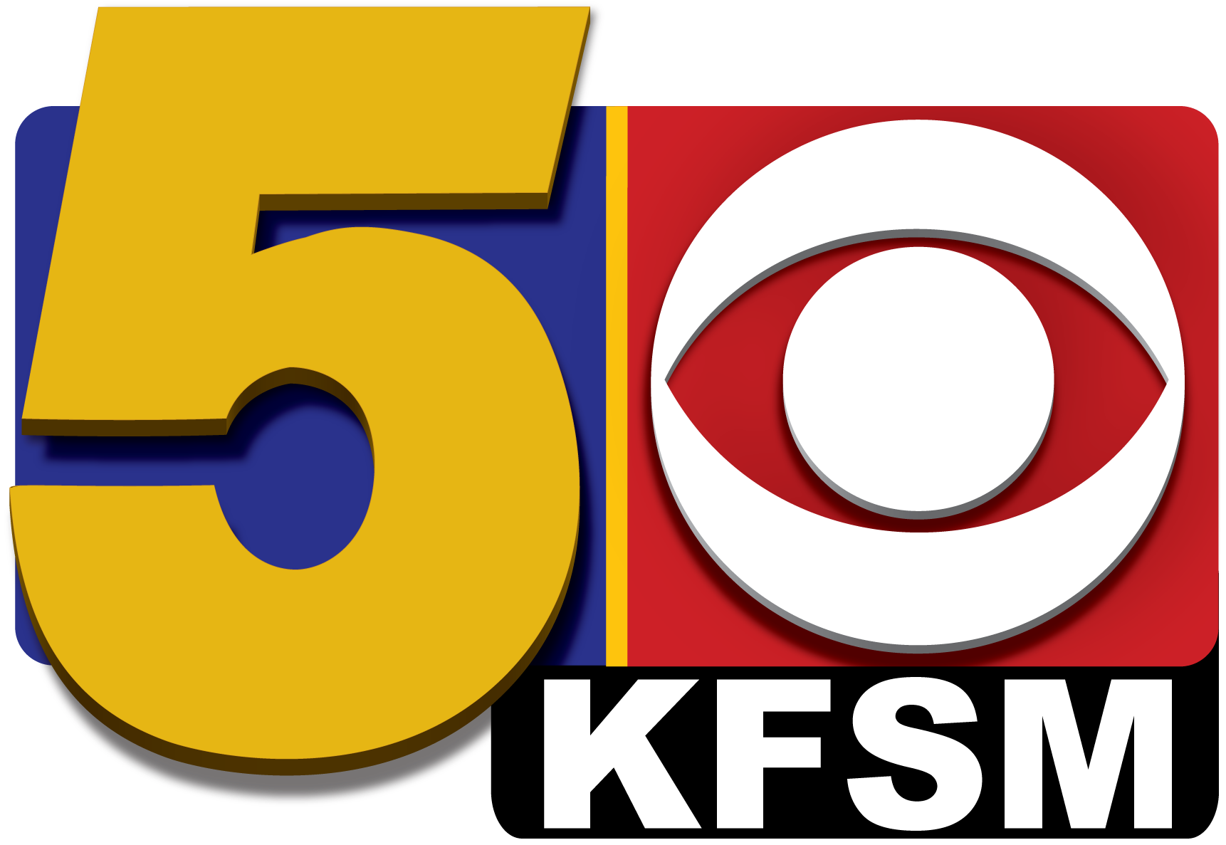 Channel 5 (KFSM) logo circa 2015.